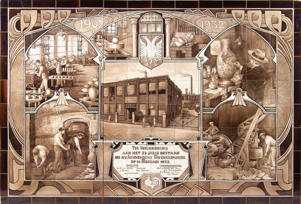 Tile-tableau made for the 25th annivesary of the Arnhemsche Fayencefactory by W.P. Hartgring.